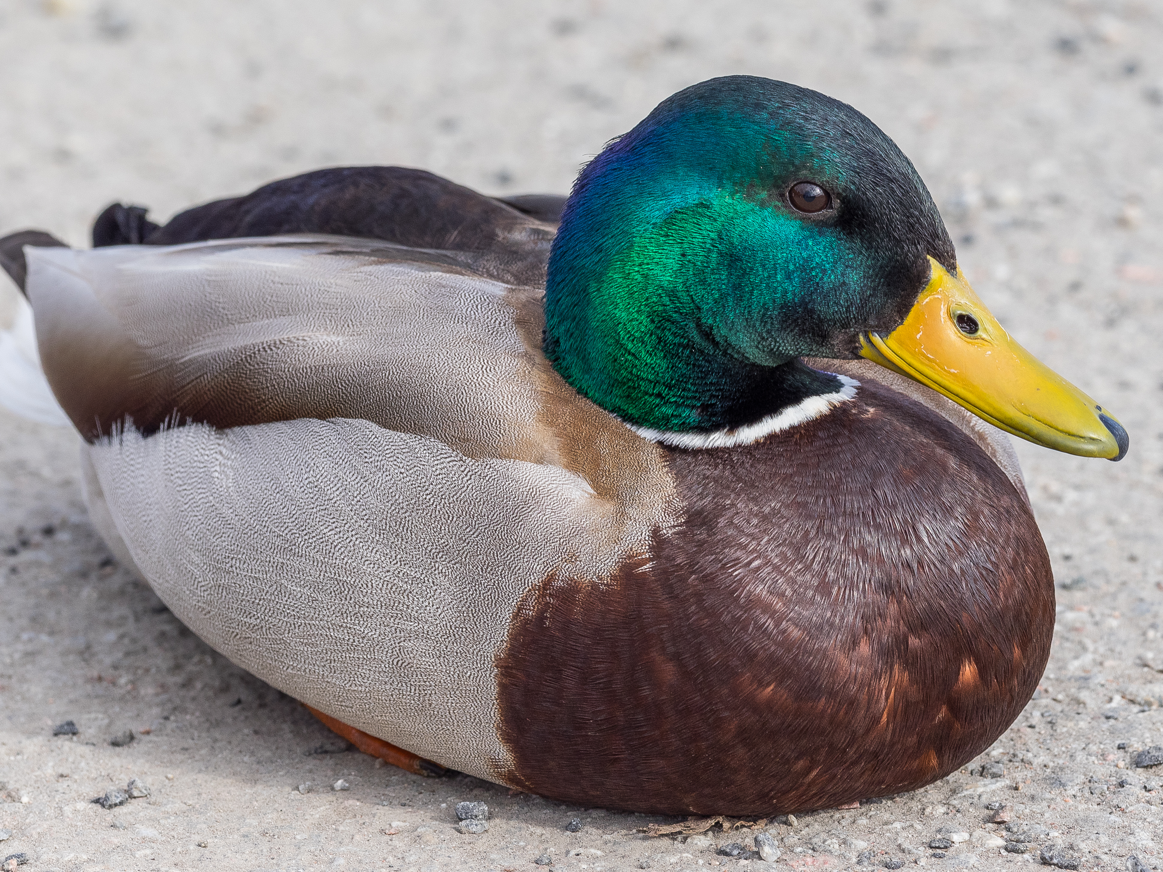 Gräsand, Mallard, Anas platyrhynchos, around Vaxholm, Sweden April 2016